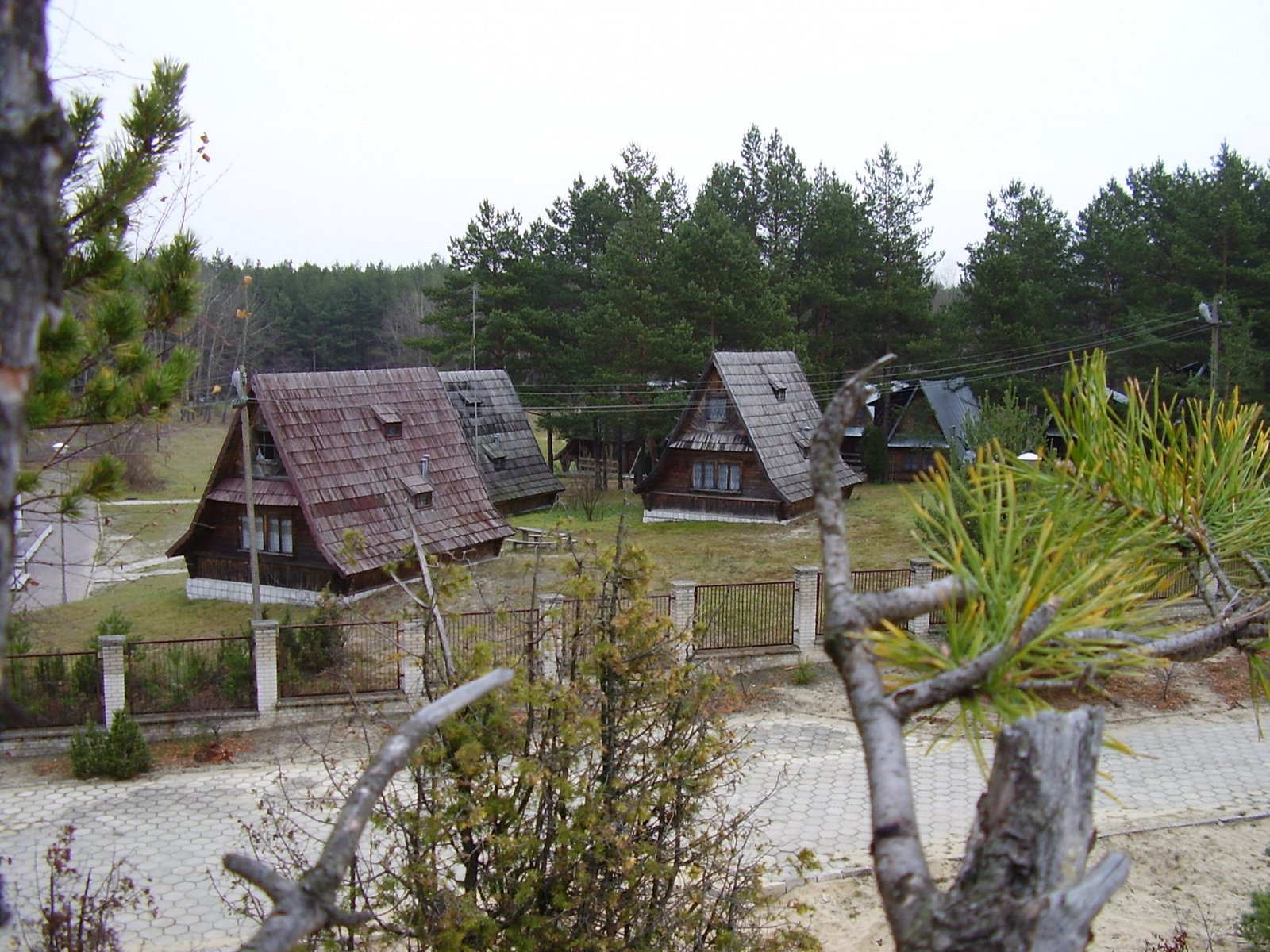 Henryk Bender